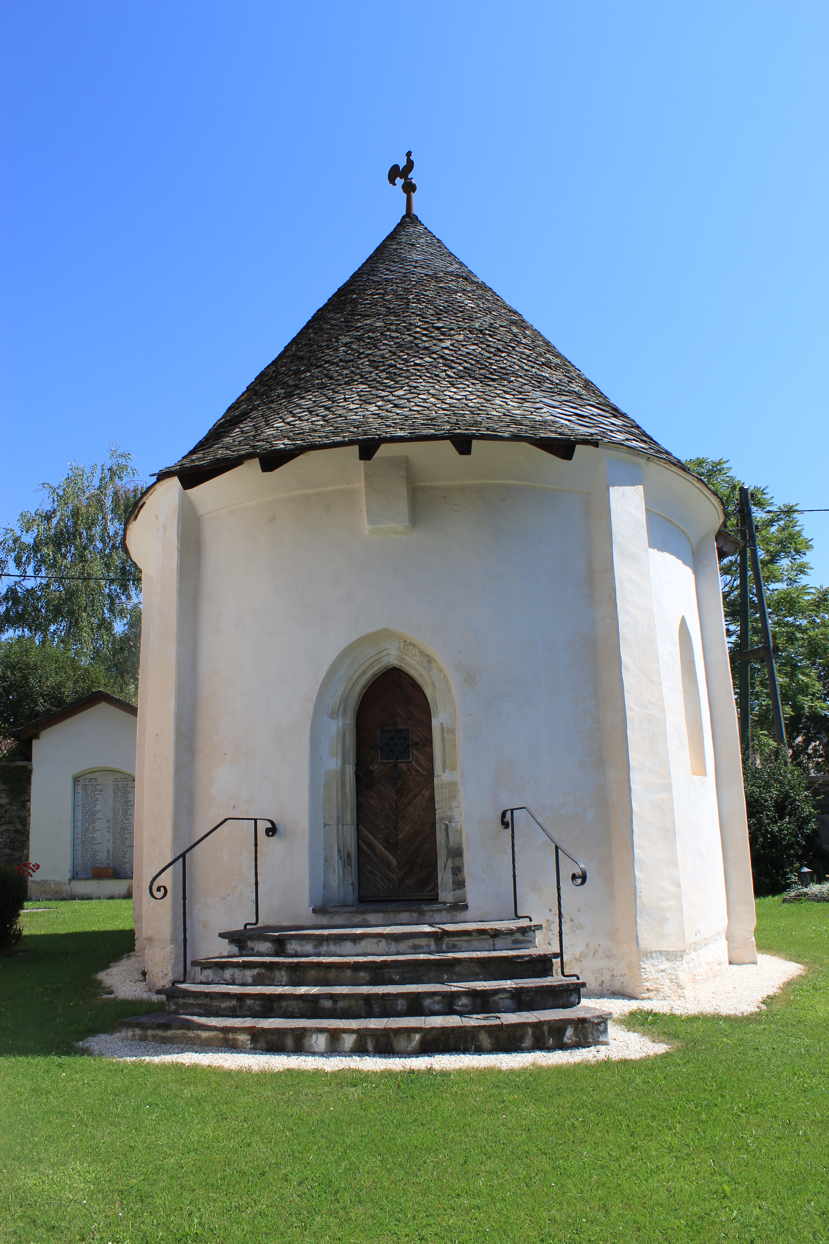 Church in Sankt Stefan in the community of Völkermarkt - Charnel house